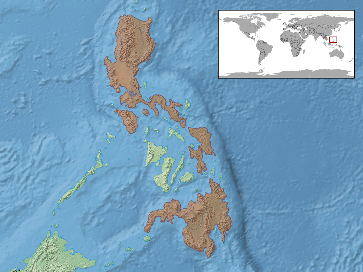 geographic distribution of Sphenomorphus coxi (IUCN) syn. Pinoyscincus coxi (RDB)